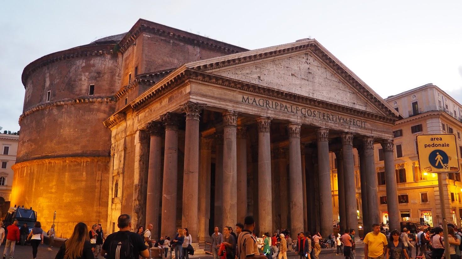 Photo of Pantheon at dusk